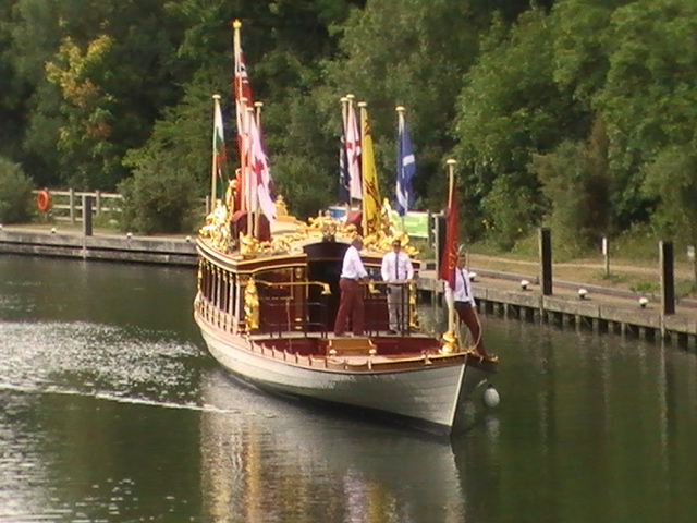 Royal Yacht Gloriana approaching Bray Lock en-route to Windsor in Berkshire. This boat passes my house very often.